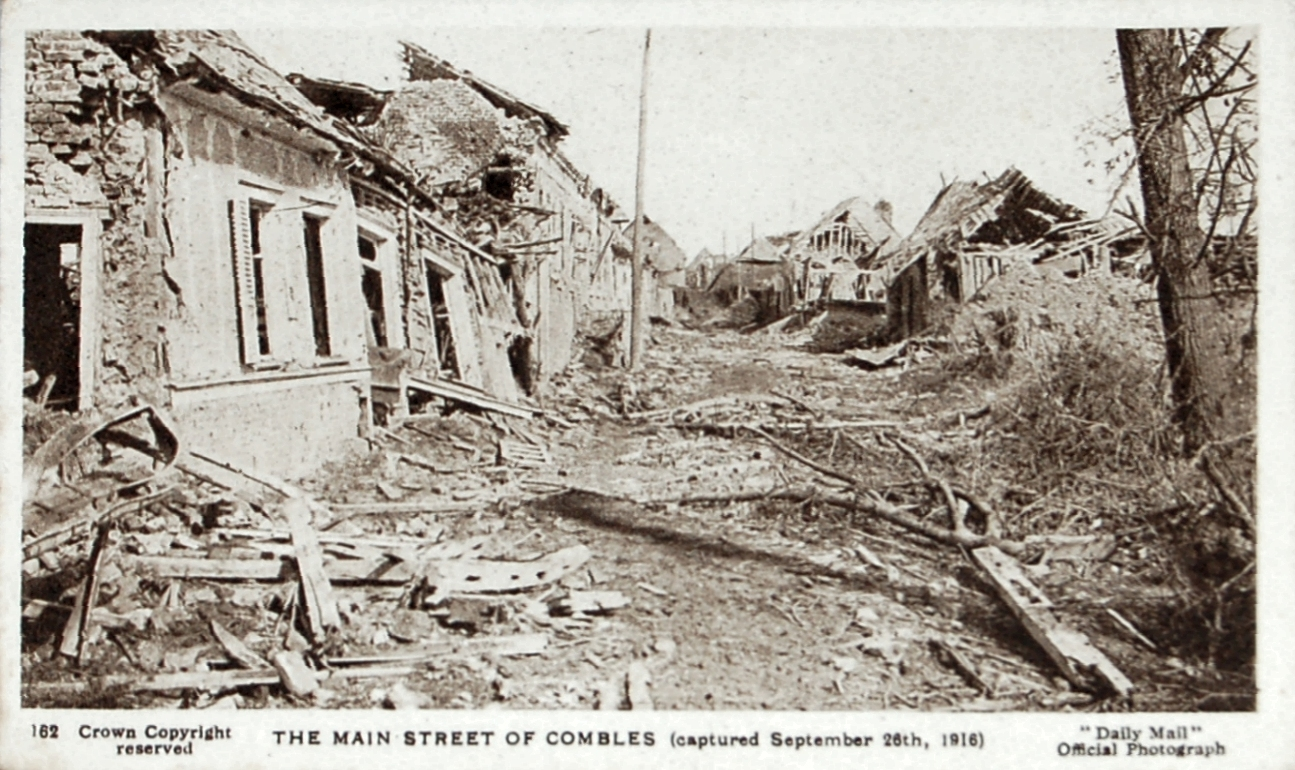 World War I Daily Mail Official War Photograph, Series 21, No. 162, titled "The main street of Combles (captured September 26thm 1916)". The obverse carries the following information: "Passed by Censor" and "'Combles is no longer a village, it is a shambles,' was remarked when it fell to British and French forces in co-operation".